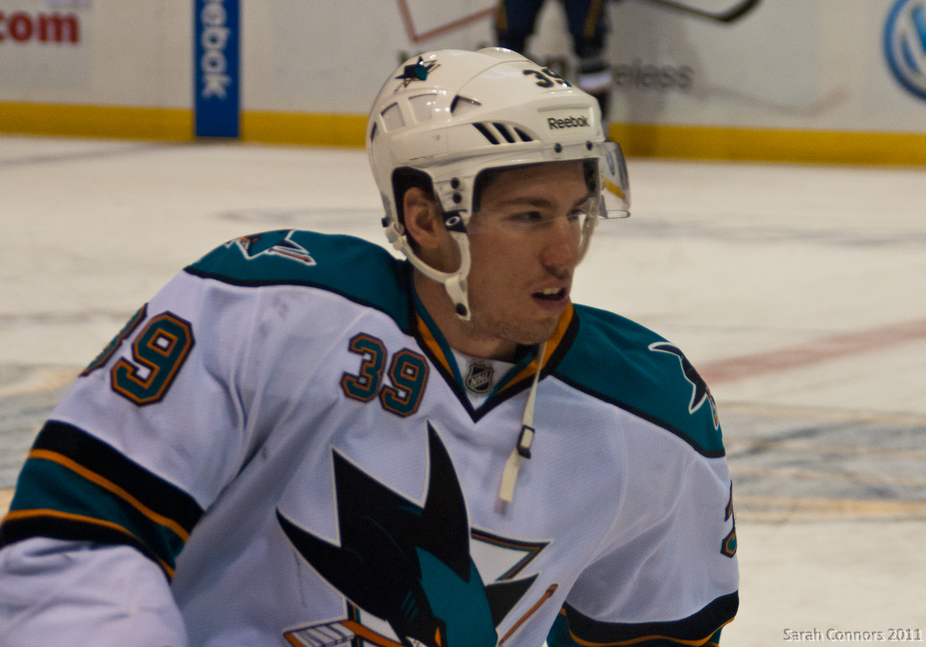 Logan Couture, Canadian ice hockey centre